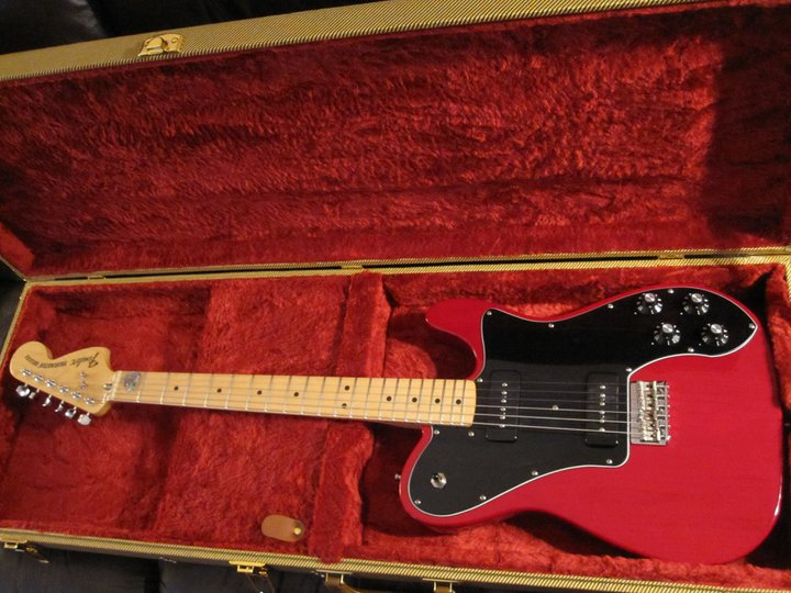 Telecaster Deluxe Black Dove